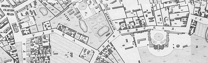 Map of Kazakova Street in Moscow, 1852